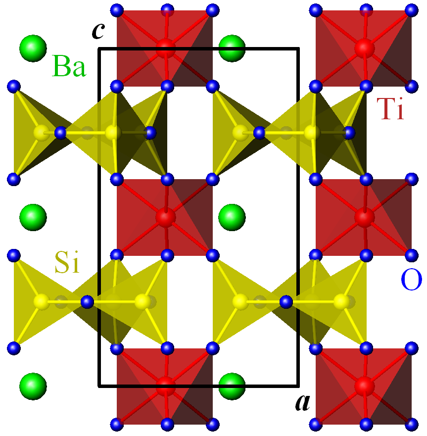 Crystal structure of benitoite, BaTiSi3O9, P-6c2, projected onto the (a,c) plane.